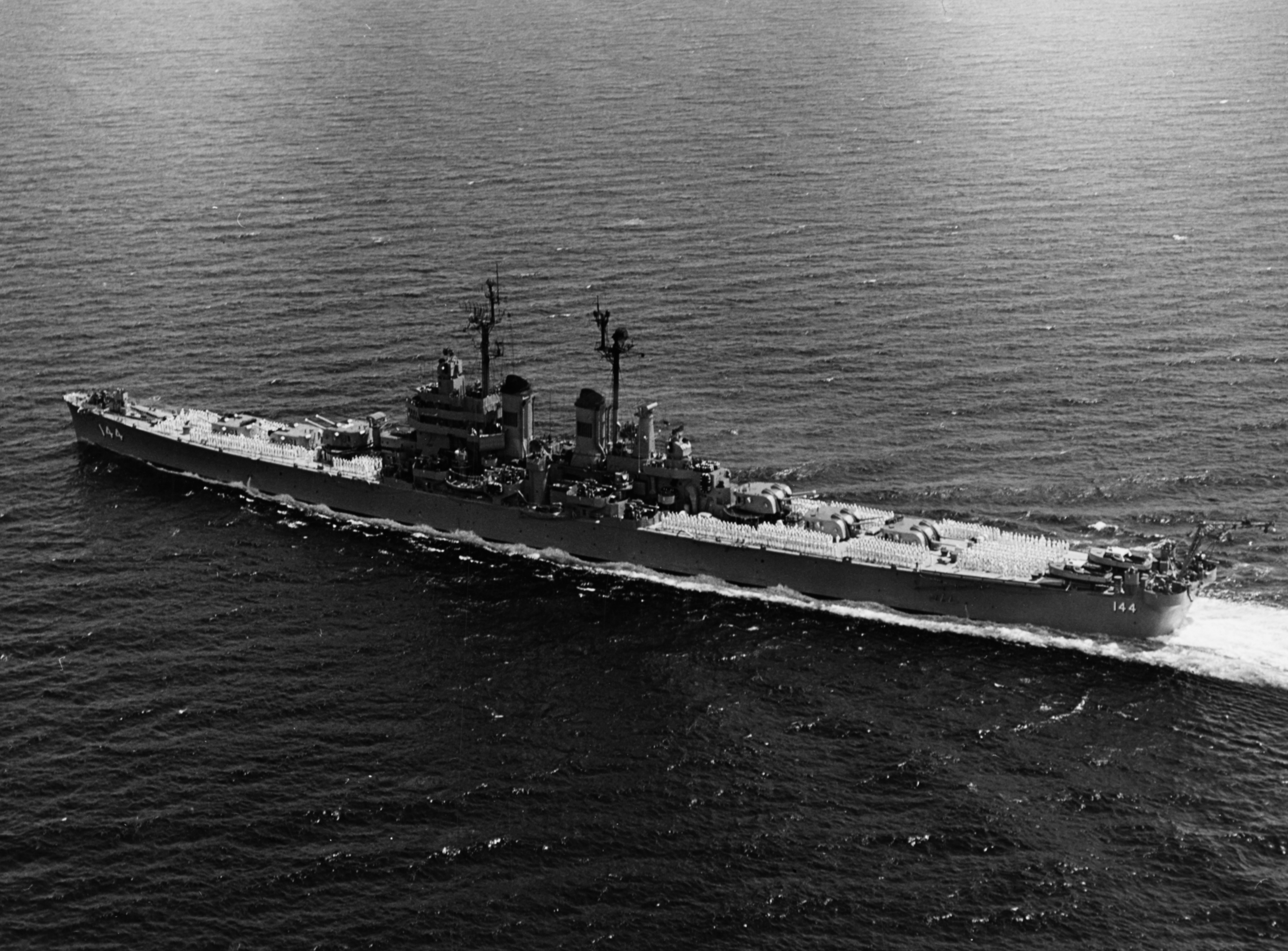 The U.S. Navy light cruiser USS Worcester (CL-144) underway, with her crew at quarters during Memorial Day services, 31 May 1952.